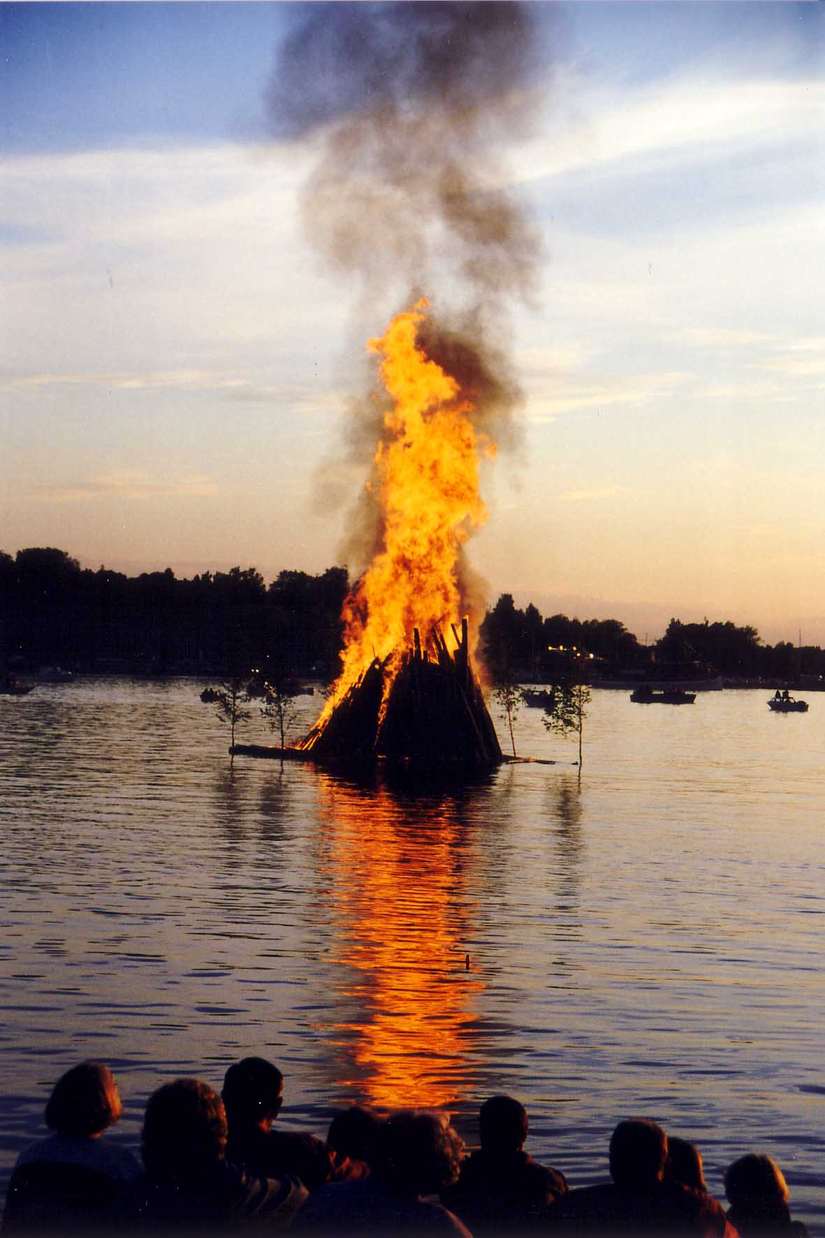 Midsummer night bonfire in Lappeenranta, Finland